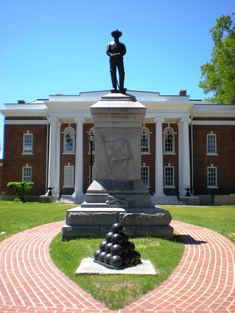 Confederate Statue, Surry, Virginia